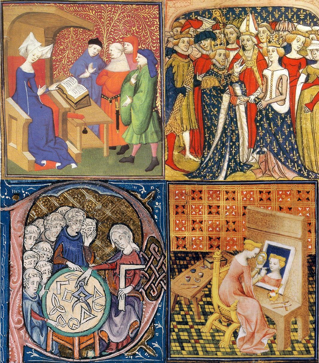 Maria of Brabant's marriage with the French king Philip III of France, miniature in the manuscript Chroniques de France ou de St. Denis, British Library, London.